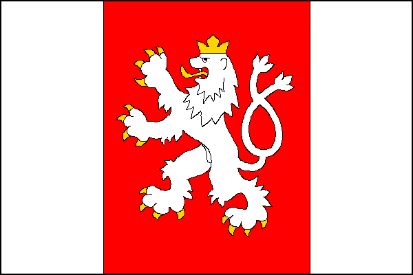 Flag of Turnov town, Semily District, Czech Republic.